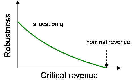 Robustness curve